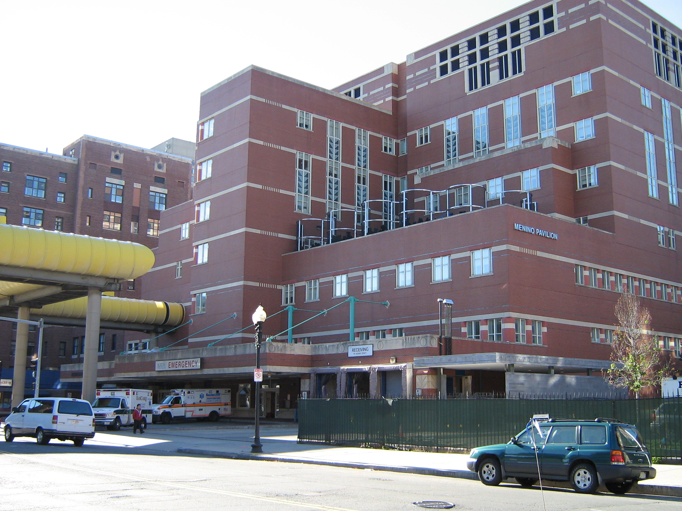 Boston Medical Center